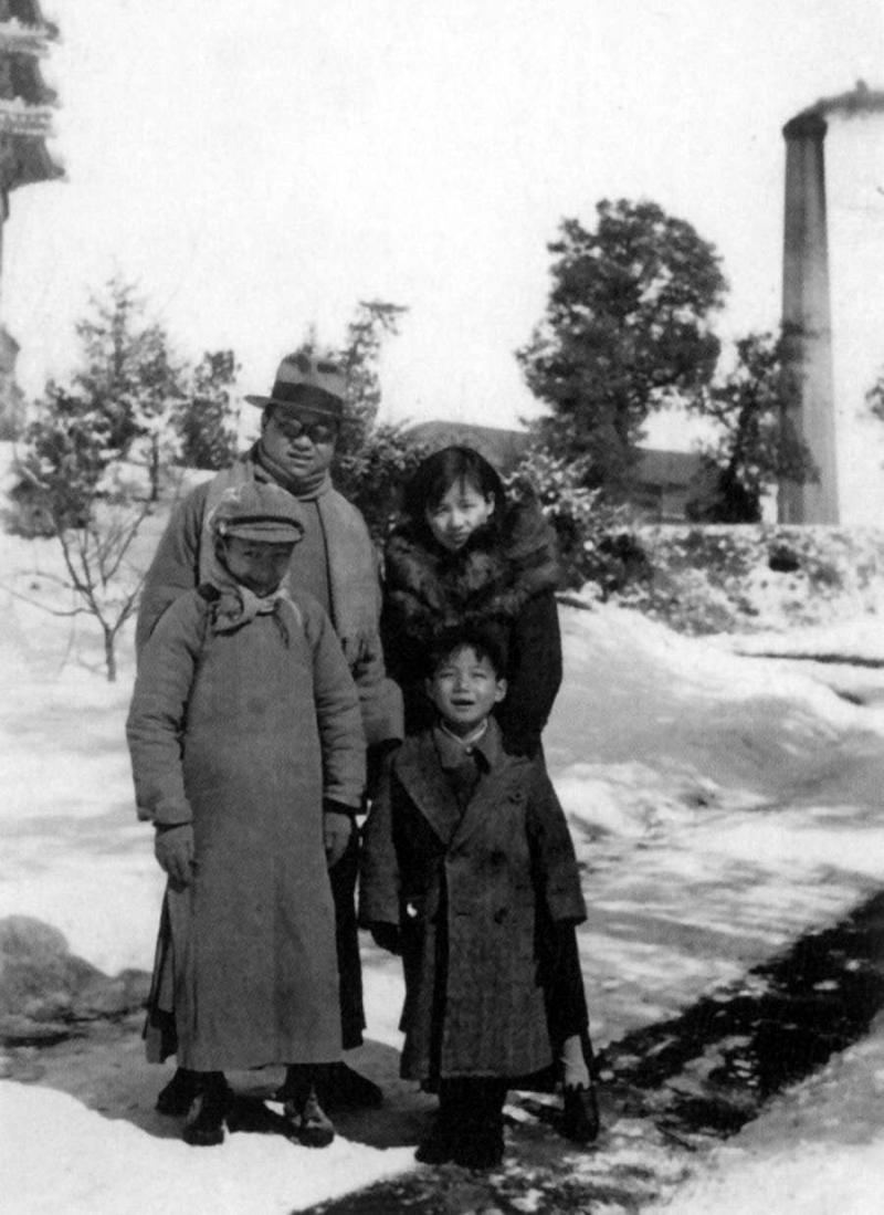 Chinese scholar Gu Tinglong and family at Yenching University, winter 1935. The younger boy is the future aircraft designer Gu Songfen.